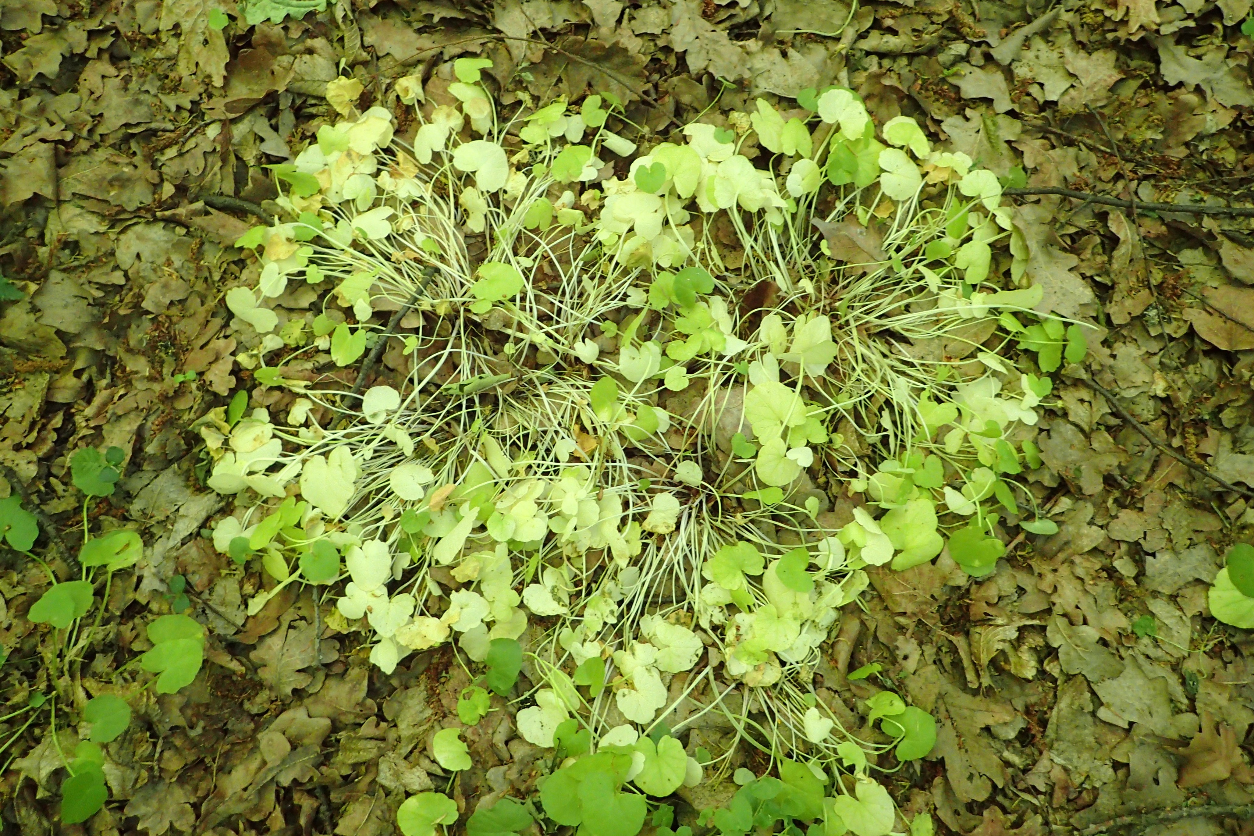 Ficaria verna withering in May. Sibin, Romania.